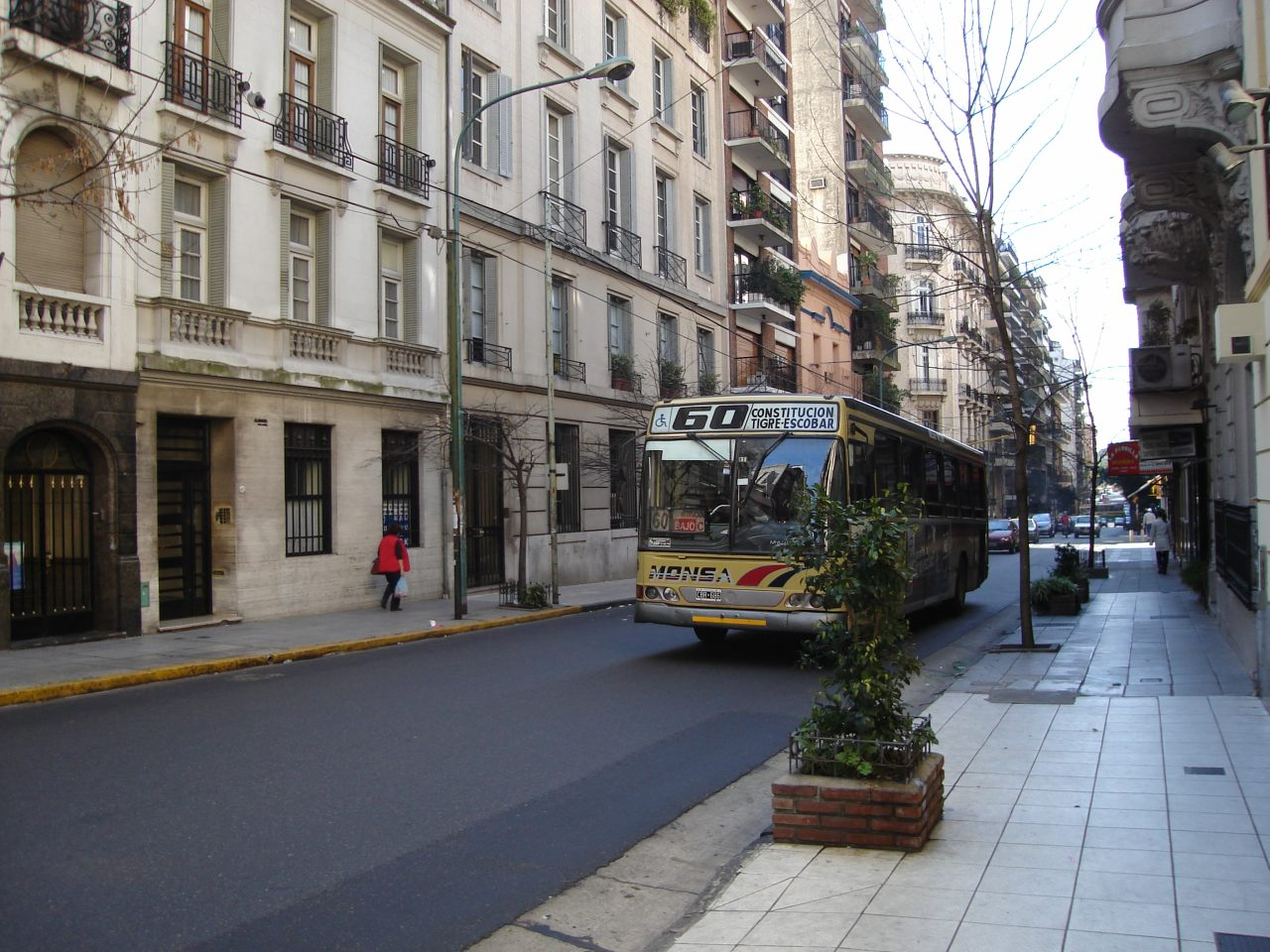 Marcopolo Torino GV bus (reg. C.. 686) with unknown chassis in Junín Street, Recoleta, Buenos Aires, Argentina. Colectivo, line 60, M.O.N.S.A. (NU.D.O. S.A. (Nuevos Rumbos S.A. - D.O.T.A.)) operator.